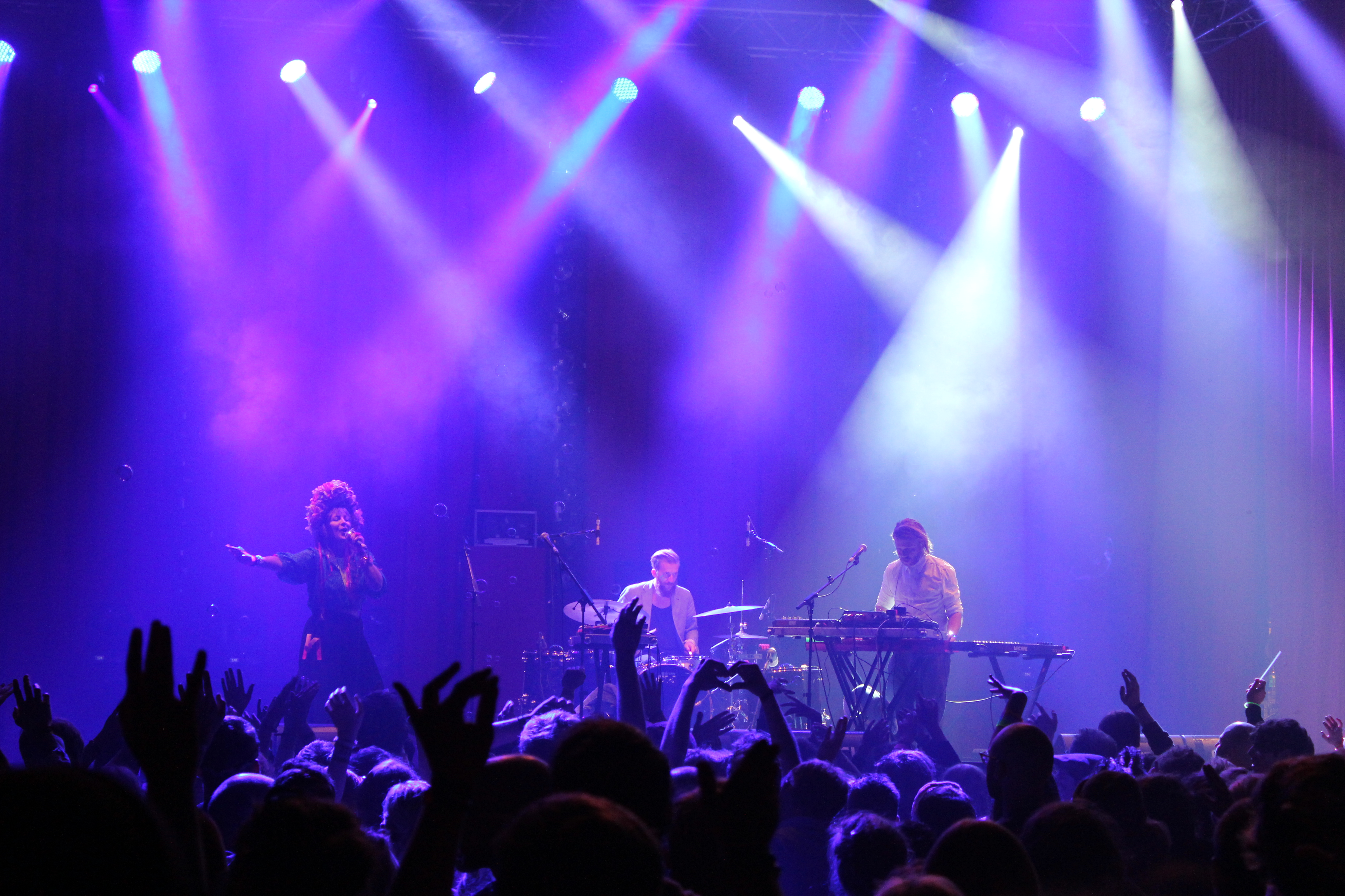 Niki and the Dove from Stockholm, Sweden performing at Melt! Festival in Ferropolis, Gräfenhainichen Germany, July 14, 2012.